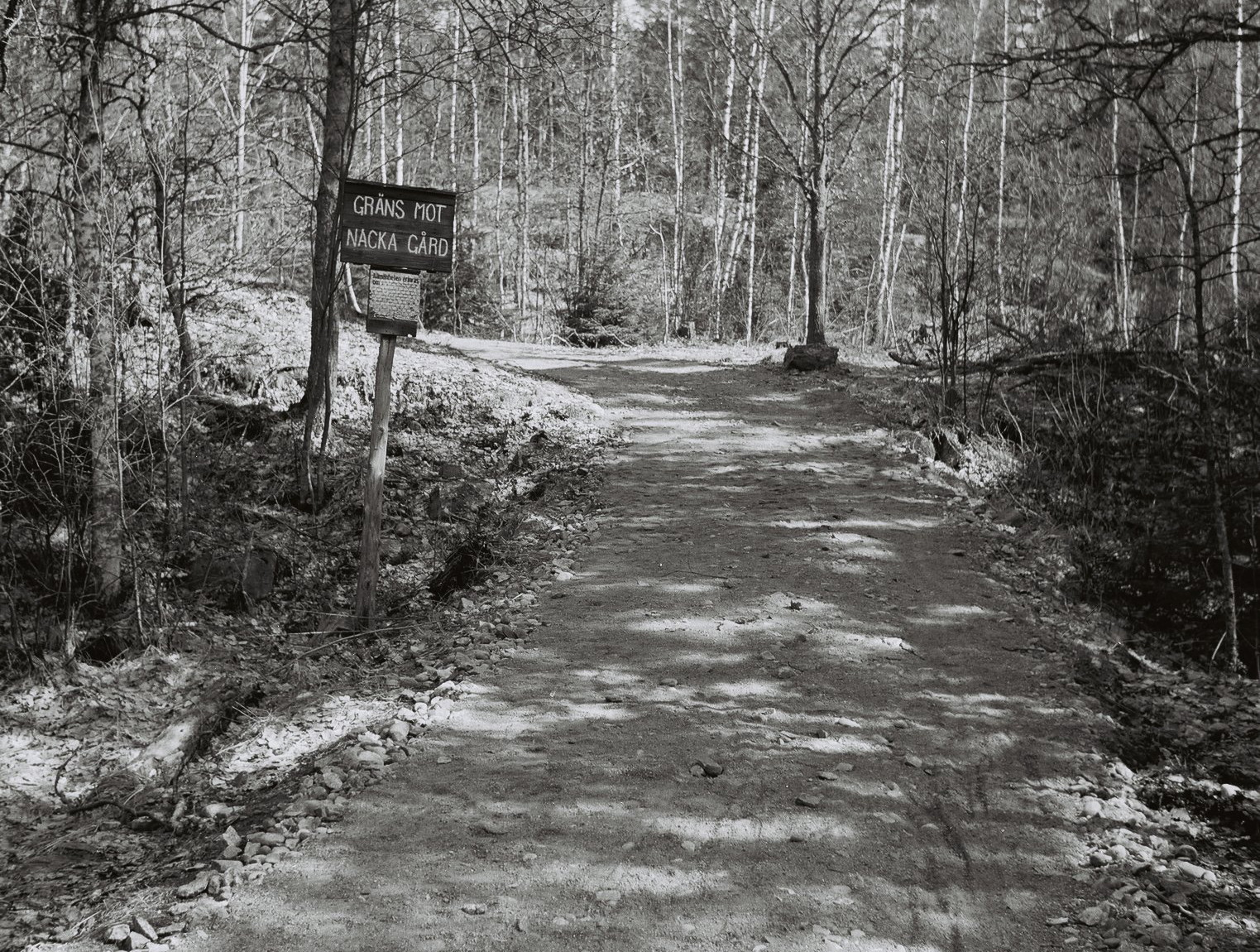 Road to Söderbysjön